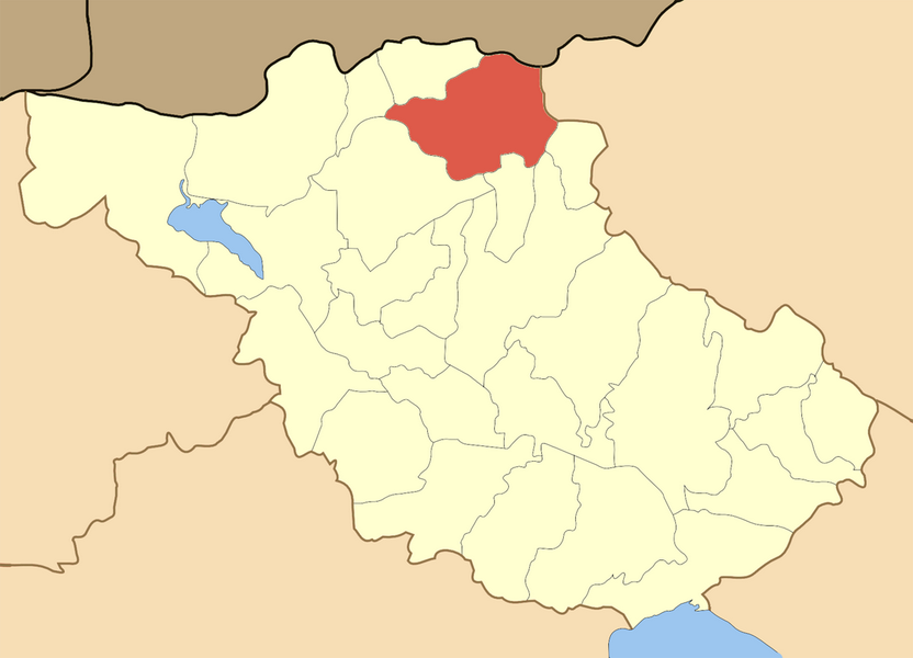 Locator map of Achladohori township in Serres perfecture in Greece.